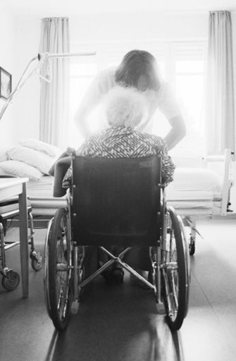 Resident of a nursing home in Munich (Germany)